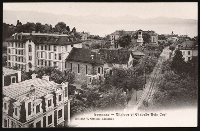 Picture from the Clinique Bois Cerf (6)